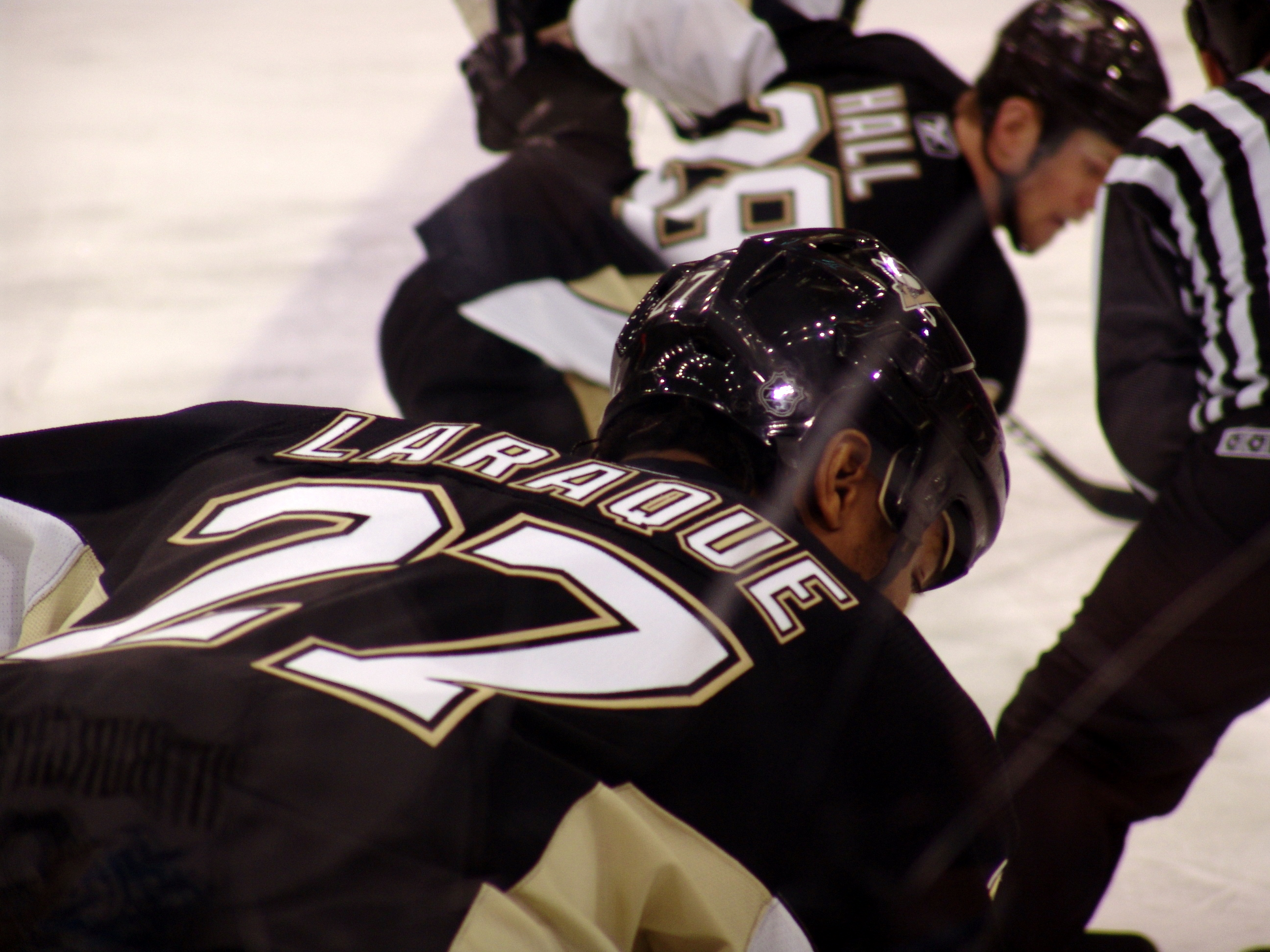 Pittsburgh Penguins enforcer Georges Laraque during a game against the Philadelphia Flyers at Mellon Arena in Pittsburgh, PA. April 2, 2008.